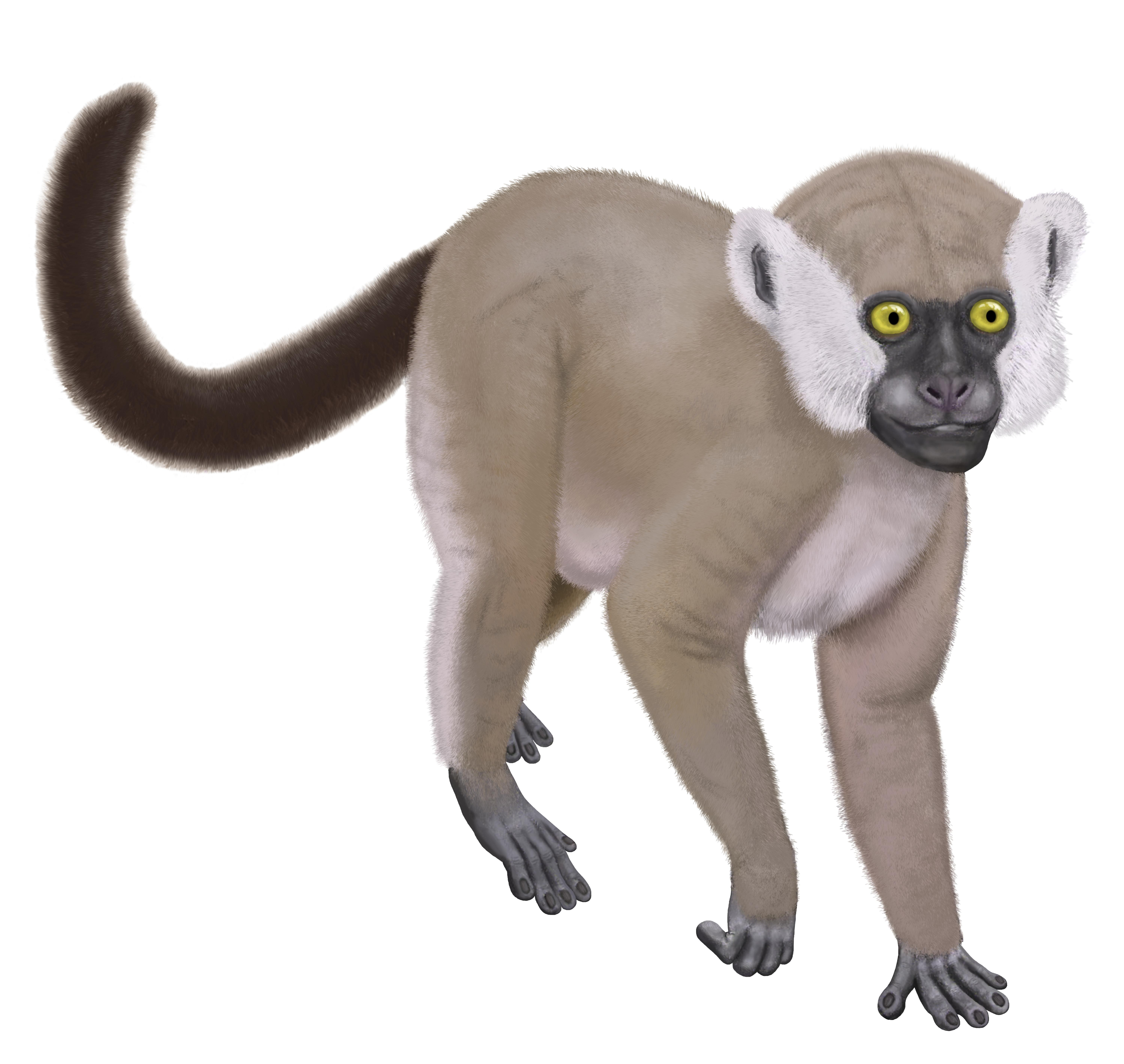 Life restoration of Hadropithecus stenognathus. Based on: Life restoration by Stephen Nash in figure 6.2 of "Lemurs: Old and New" by Elwyn L. Simons: Natural Change and Human Impact in Madagascar. Life restoration by Stephen Nash in Lemurs of Madagascar, 3rd edition. Photograph of skull at Duke University Lemur Center Division of Fossil Primates website (third photograph, bottom left skull).